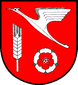 Coat of arms of the municipality Appen in Schleswig-Holstein, Germany.